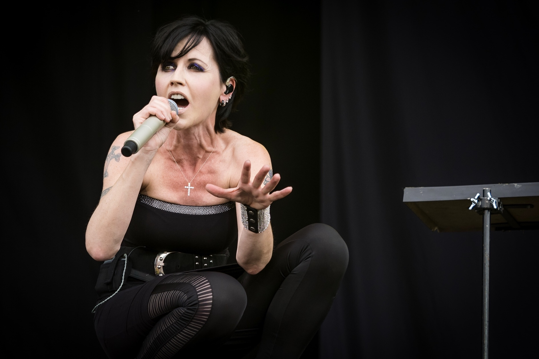 The Cranberries - Weert, Netherlands - 9 July 2016